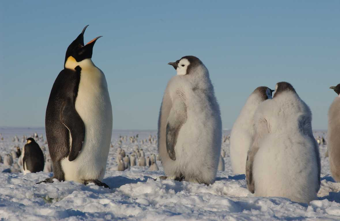 Emperor Penguin, Atka Bay, Weddell Sea, Antarctica